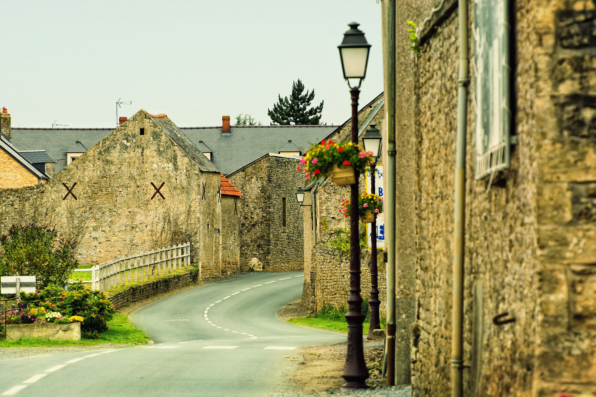 Main Street of Colleville-sur-Mer, lower Normandy, France